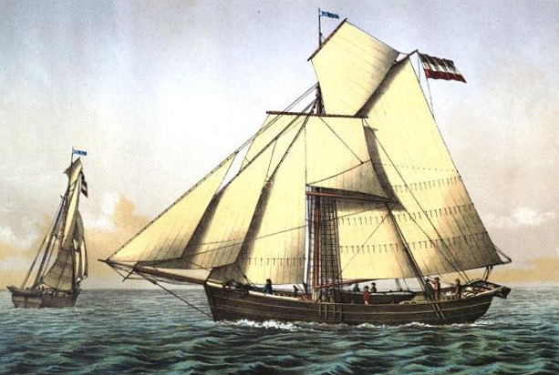 The vessel Grönland of the First German Arctic Expedition 1868.